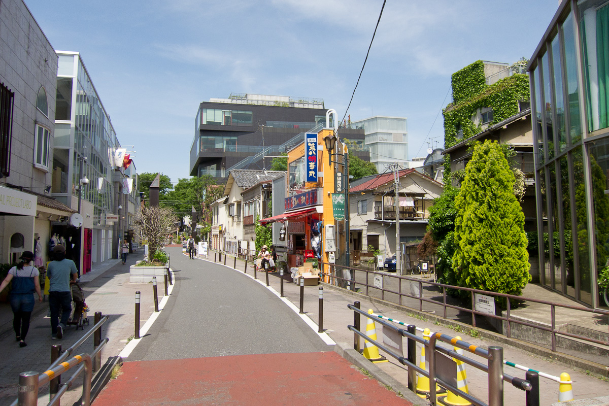 "Cat street" Jingumae Shibuya, Tokyo.